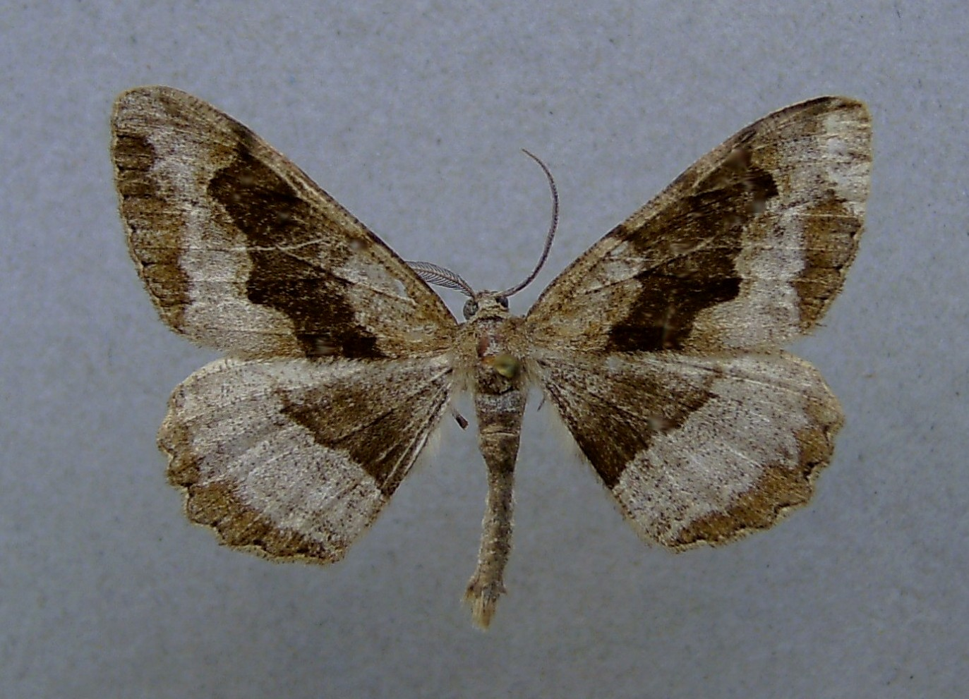 Alcis repandata, Berlin-Spandau, Germany